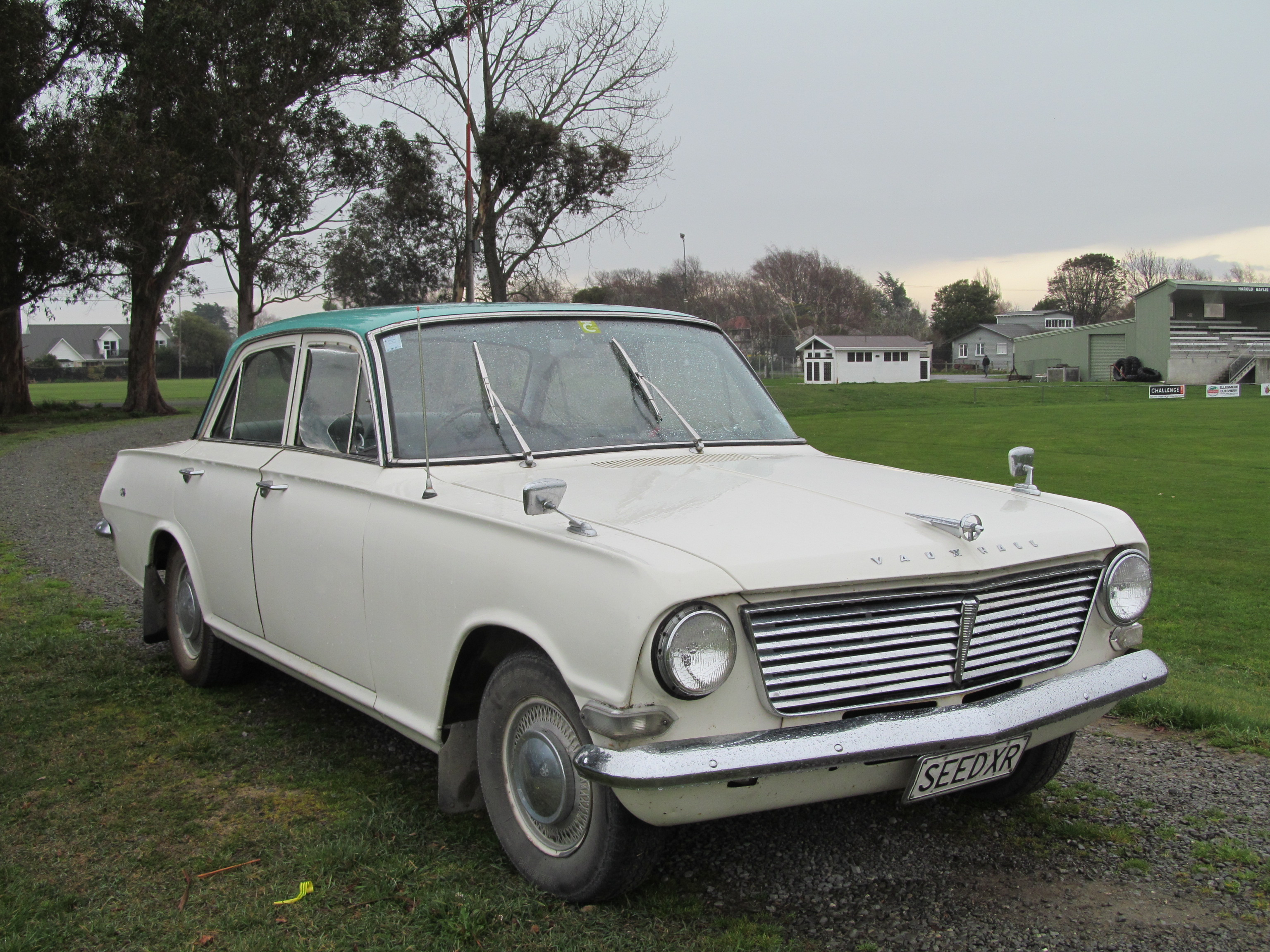 A blast from the past! This looks like just the sort of thing a rural stock agent would have had in the mid 60s, with its mudflaps and window monsoon guard. It even has an old 'C' registration sticker on the windscreen, probably of 70s or early 80s vintage. I assume the personalised plate is something to do with farming or plants?